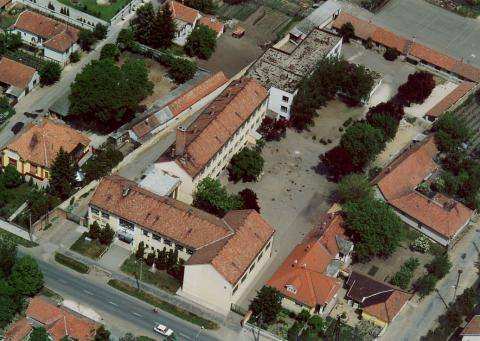 Izsák, Hungary, aerialphotgraphy